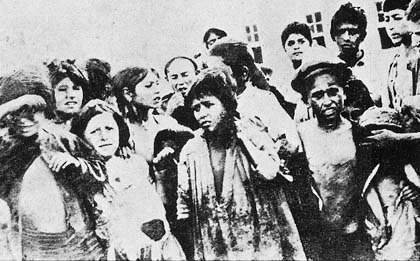 Outside the door of the orphanage in Kharpet